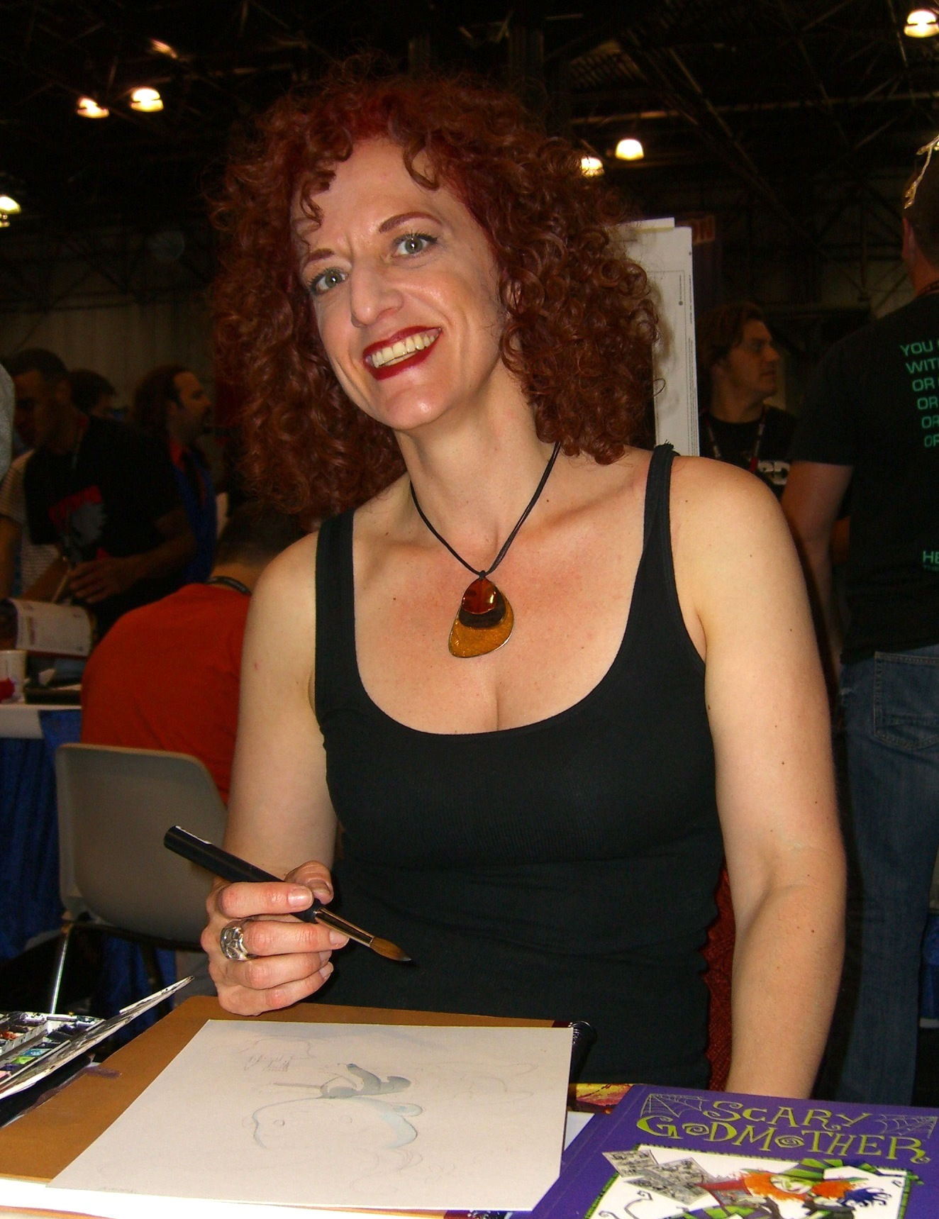 Comics creator Jill Thompson at the New York Comic Con, October 15, 2011. This photo was created by Luigi Novi. It is not in the public domain, and use of this file outside of the licensing terms is a copyright violation.